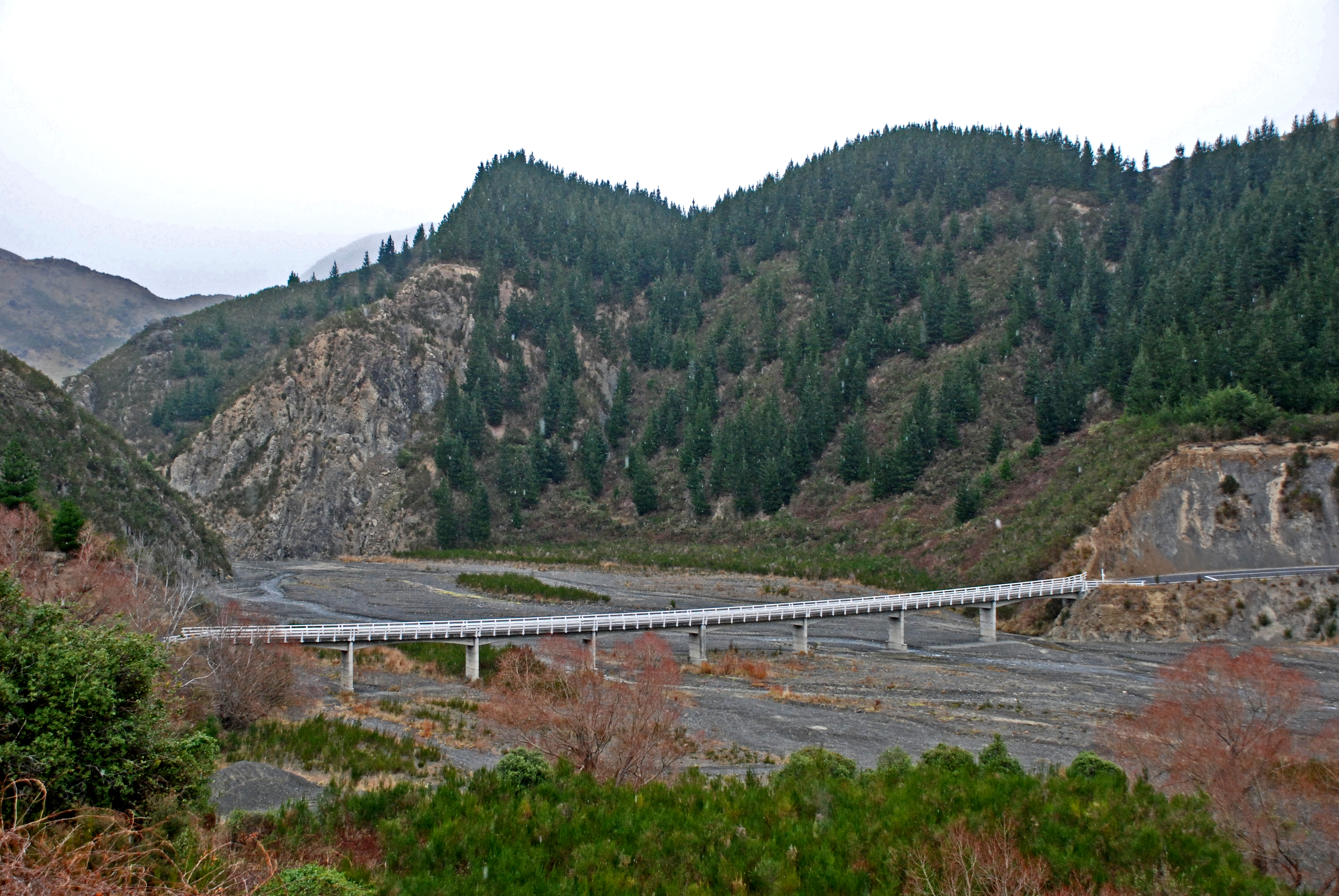 Conway River Bridge, Inland Kaikoura Road, Canterbury, New Zealand